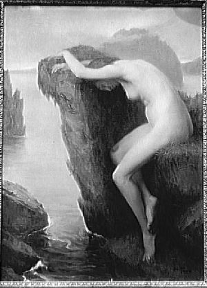 The Wheeping Rock